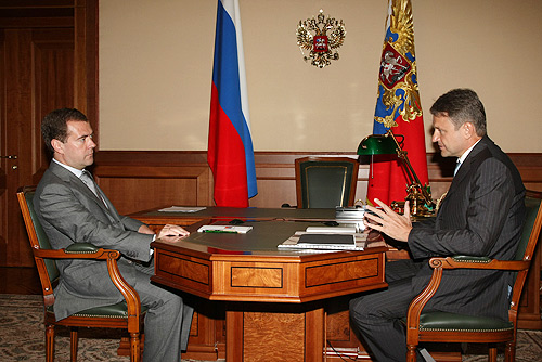 BOCHAROV RUCHEI, SOCHI. With Governor of Krasnodar Region Alexander Tkachev..